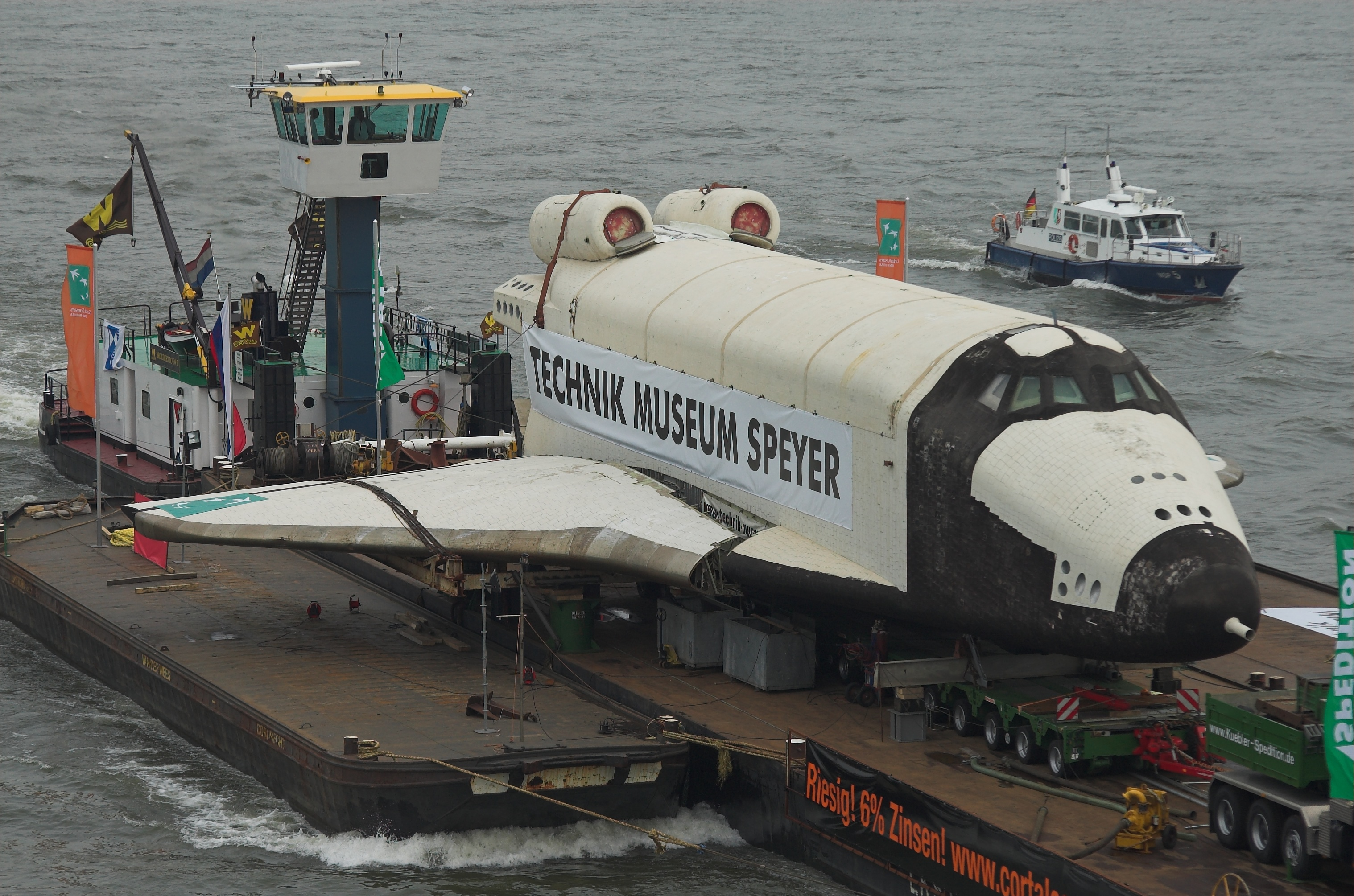 OK-GLI on its way to Speyer, Bonn